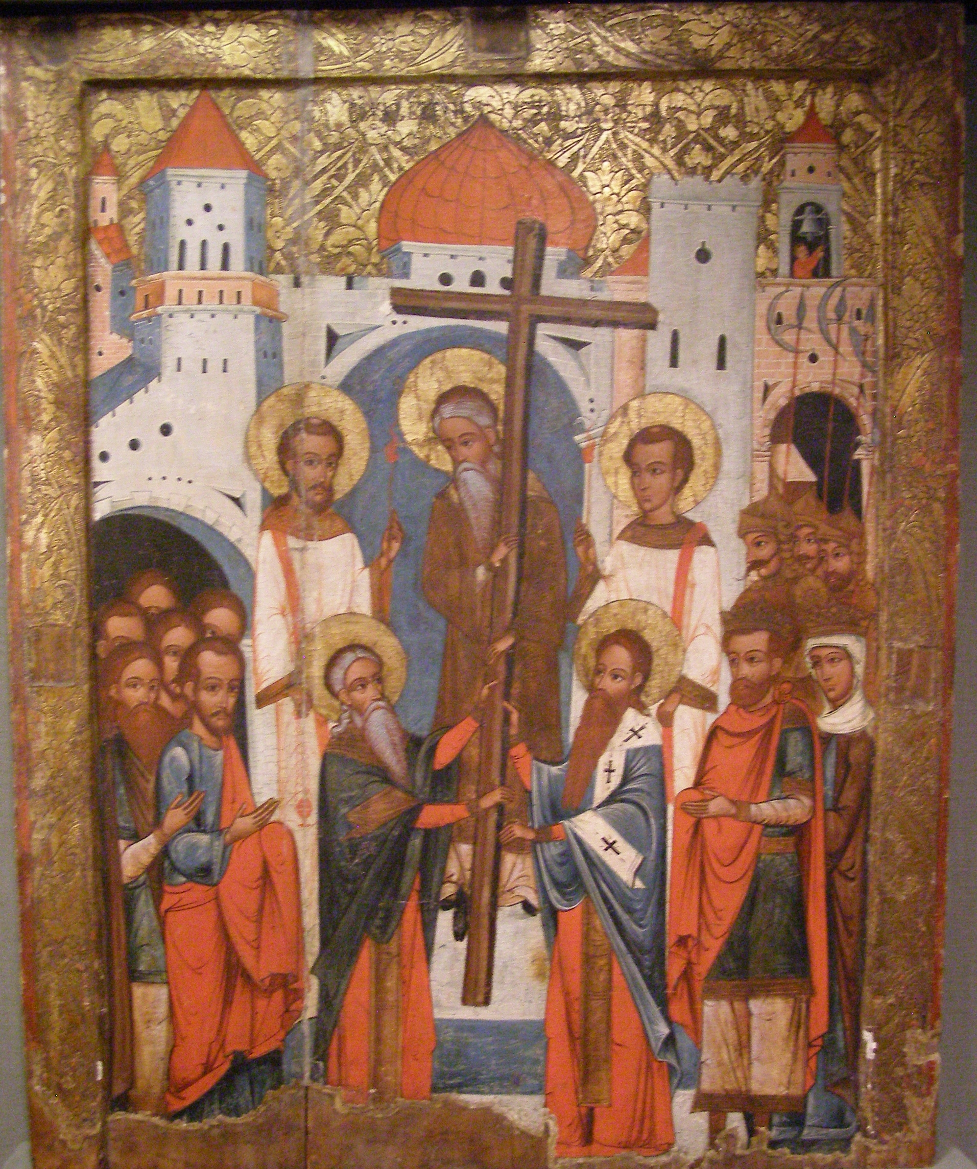 Olsztyn - Museum of Warmia and Masuria Feast of the Cross - temper on board, gilding